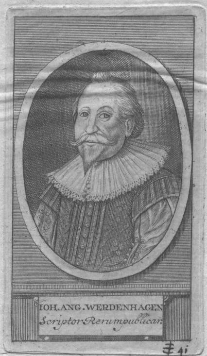 Portrait of Johann Angelius Werdenhagen, copper engraving picture: 83x46 mm; Plate: 89x51 mm